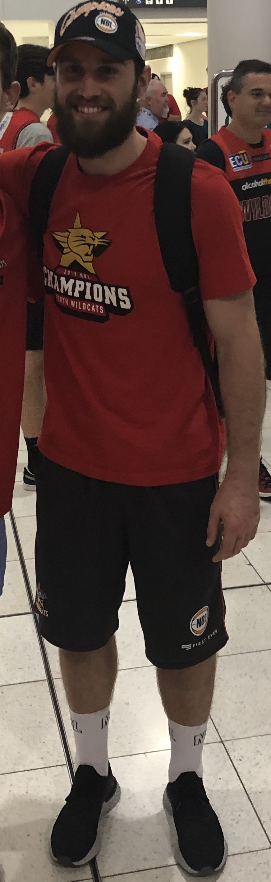 Mitch Norton of the Perth Wildcats, after winning the NBL championship